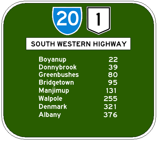 Highway Sign, South Western Highway, Western Australia, approximate road distances (in kilometres) of towns from Bunbury